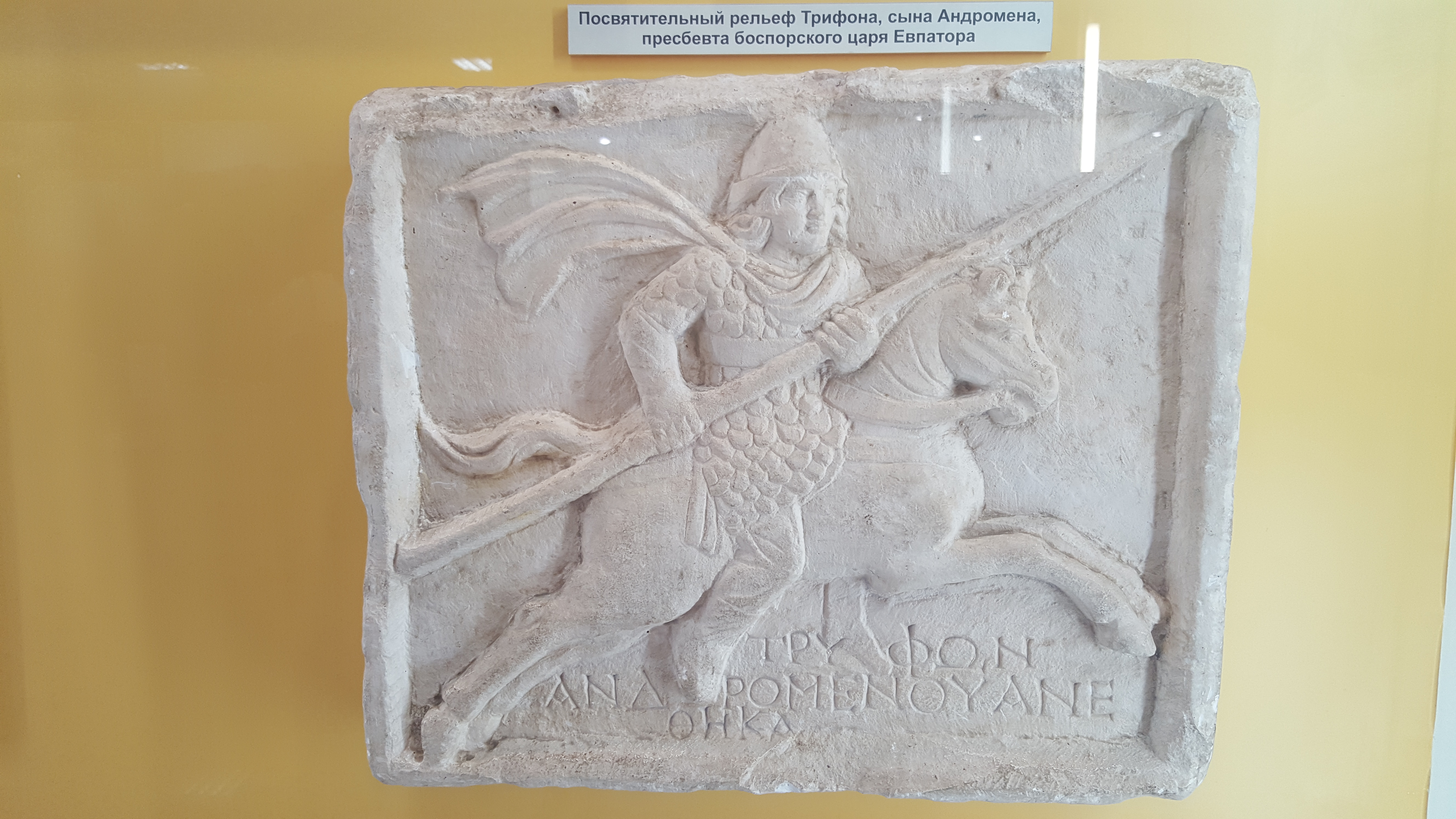 The Tryphon's relief, excavated from Tanais, ancient Greek colony situated in today's Rostov oblast, Russia.